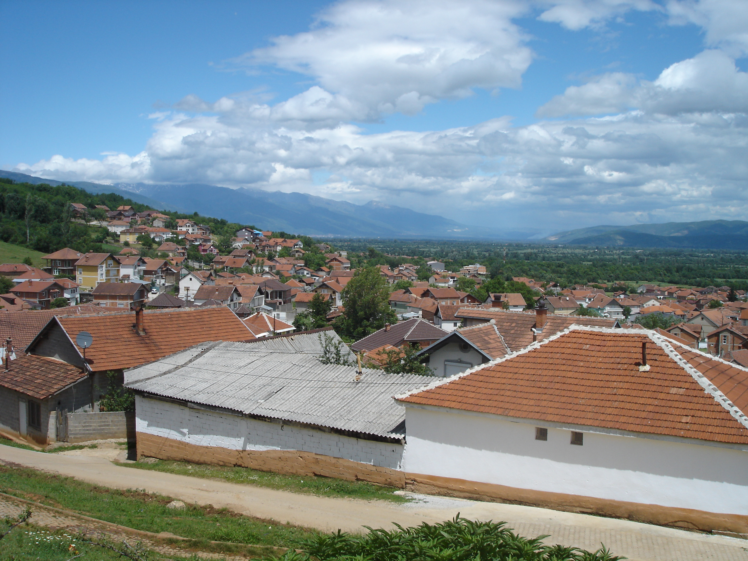 village of Debreshe, near Gostivar, Macedonia